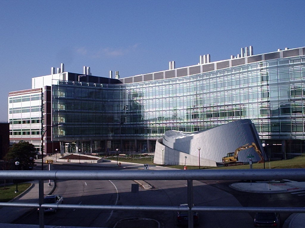 The University of Michigan Biomedical Science Building. Taken January 8, 2006.